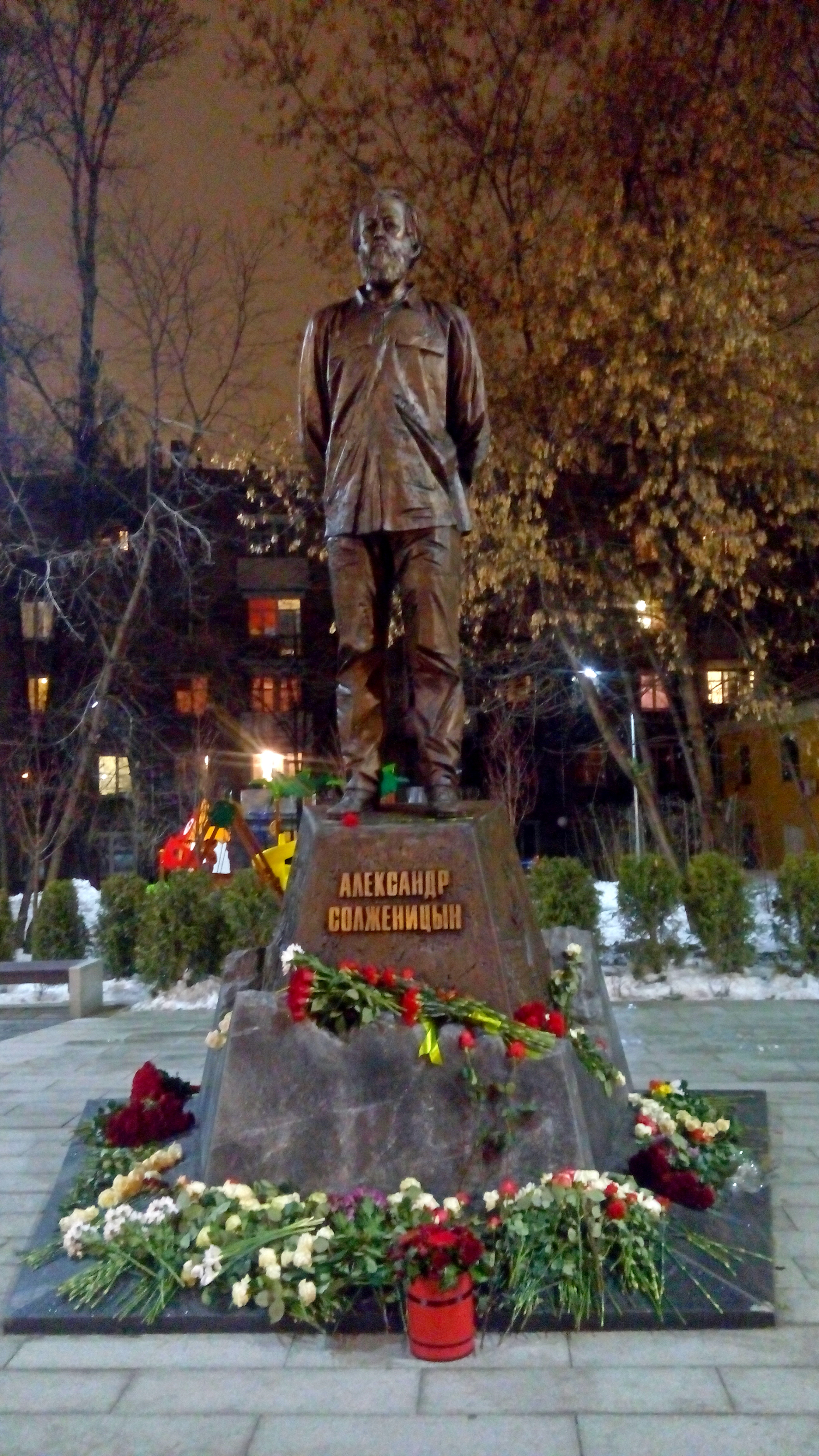 The monument to Alexander Solzhenitsyn in Moscow to Alexander Solzhenitsyn street.